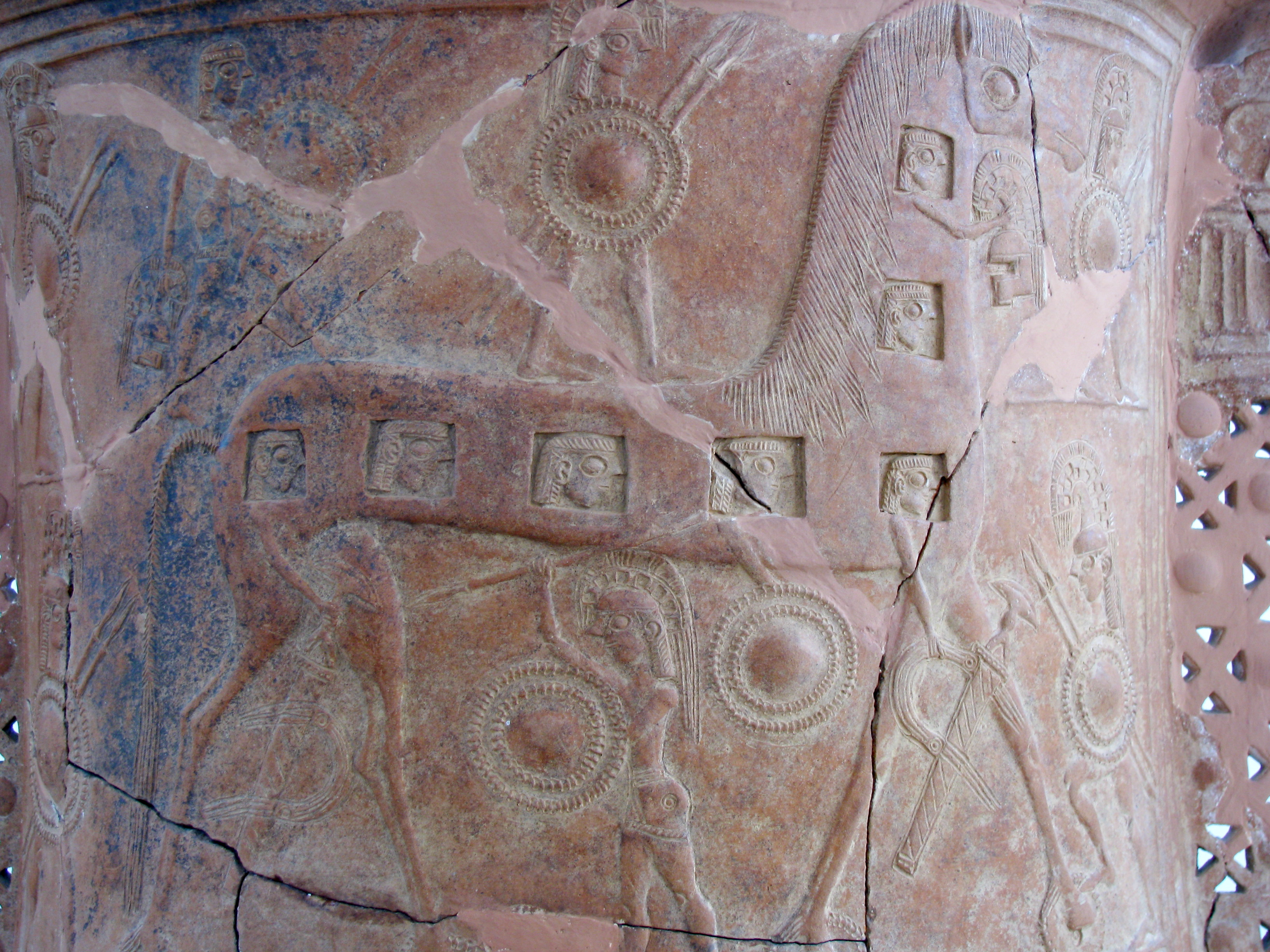 Mykonos vase (Archaeological Museum of Mykonos, Inv. 2240). Decorated pithos found at Mykonos, Greece depicting one of the earliest known renditions of the Trojan Horse